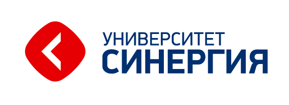 Logo of Synergy University (